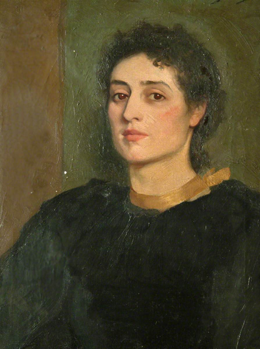 Sime, Sidney Herbert; Mrs Mary Sime; Sidney H. Sime Memorial Gallery